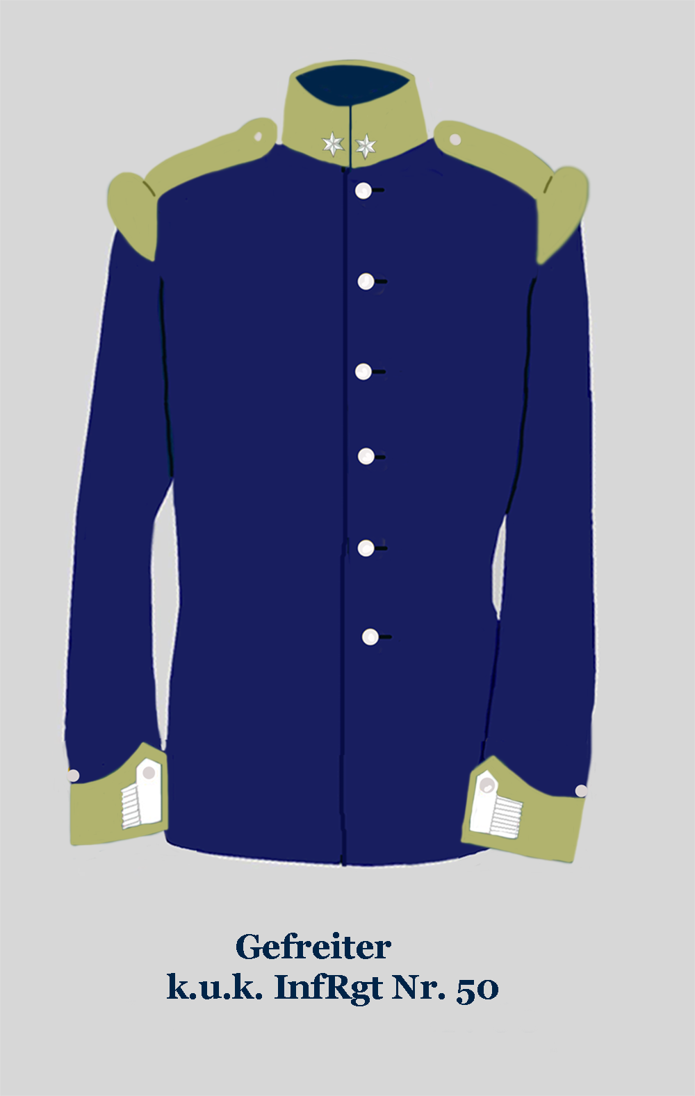 Private of the Austria-Hungarian Infantry (Hungarian style Tunic with parrot-green regimental identification color and white buttons)